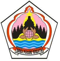 logo sala panduwisata